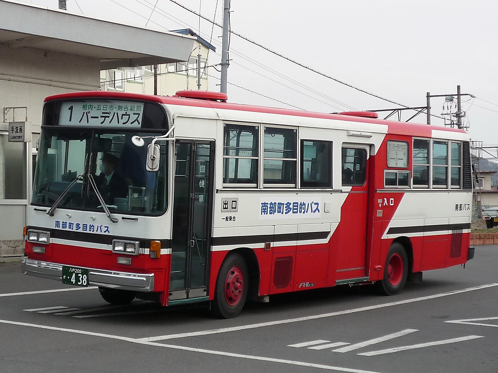 Nanbu Bus Isuzu P-LR312J(FHI 6E body),Nanbu Town(Aomori pref.) tamokuteki bus.